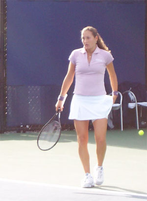 Shahar Peer playing at the 2006 U.S. Open